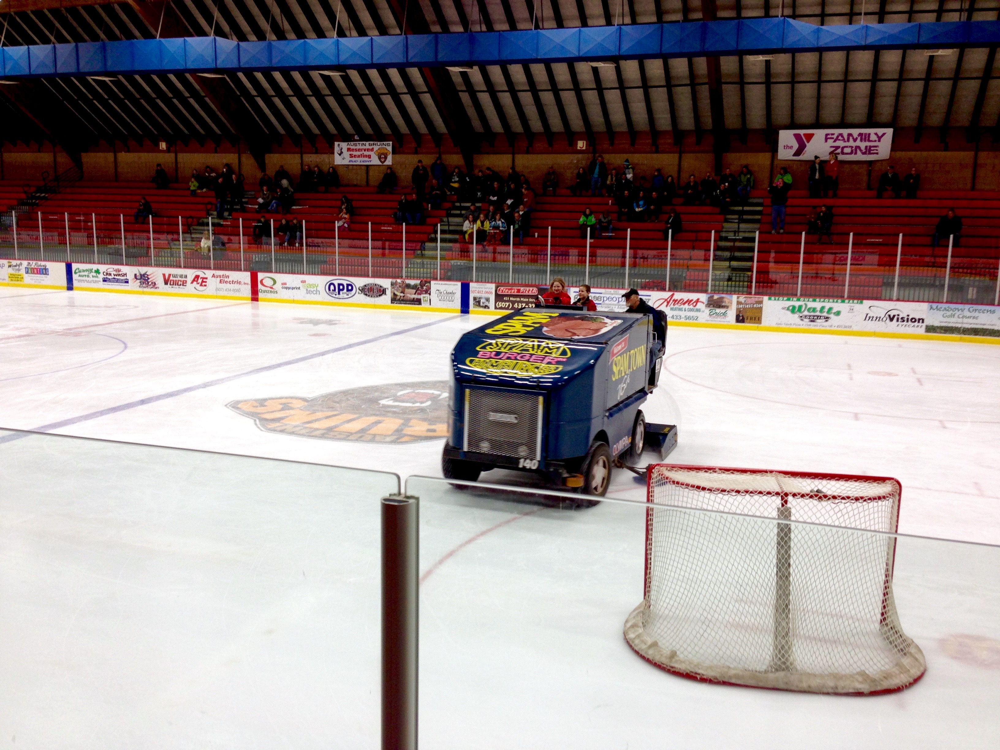 Riverside Arena in Austin (MN) is famous for having a SPAM-branded zamboni